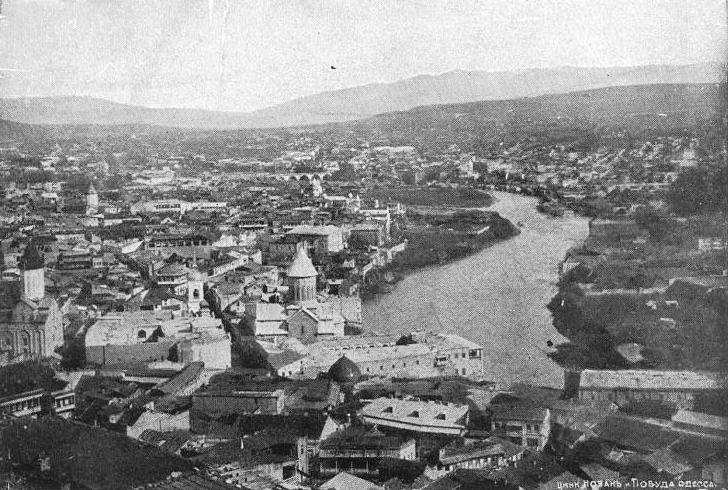 Tiflis. From the Caucasus guidebook of 1913